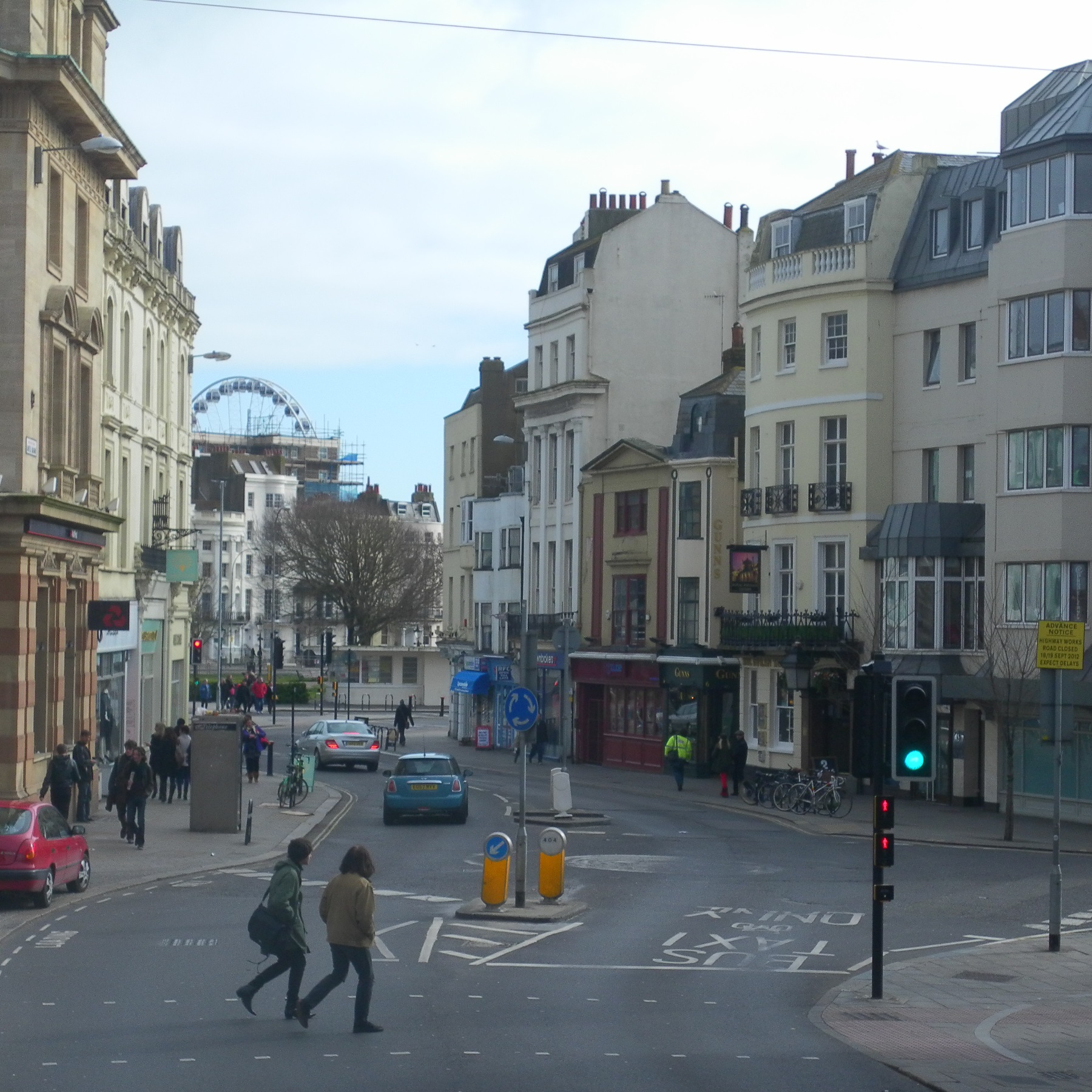 A view of Castle Square in the centre of Brighton, part of the English seaside city of Brighton and Hove. This area has been a hub of commercial activity since the mid-18th century. It took its name from the Castle Inn, demolished in 1823; this stood just beyond the white building with the green hanging sign on the left. On the right, most of the buildings date from the early 19th century and are Grade II-listed; the tall bow-fronted building with a hanging sign is the Royal Pavilion Tavern. In the background is Old Steine; just visible beyond the furthest buildings is the Brighton Wheel.